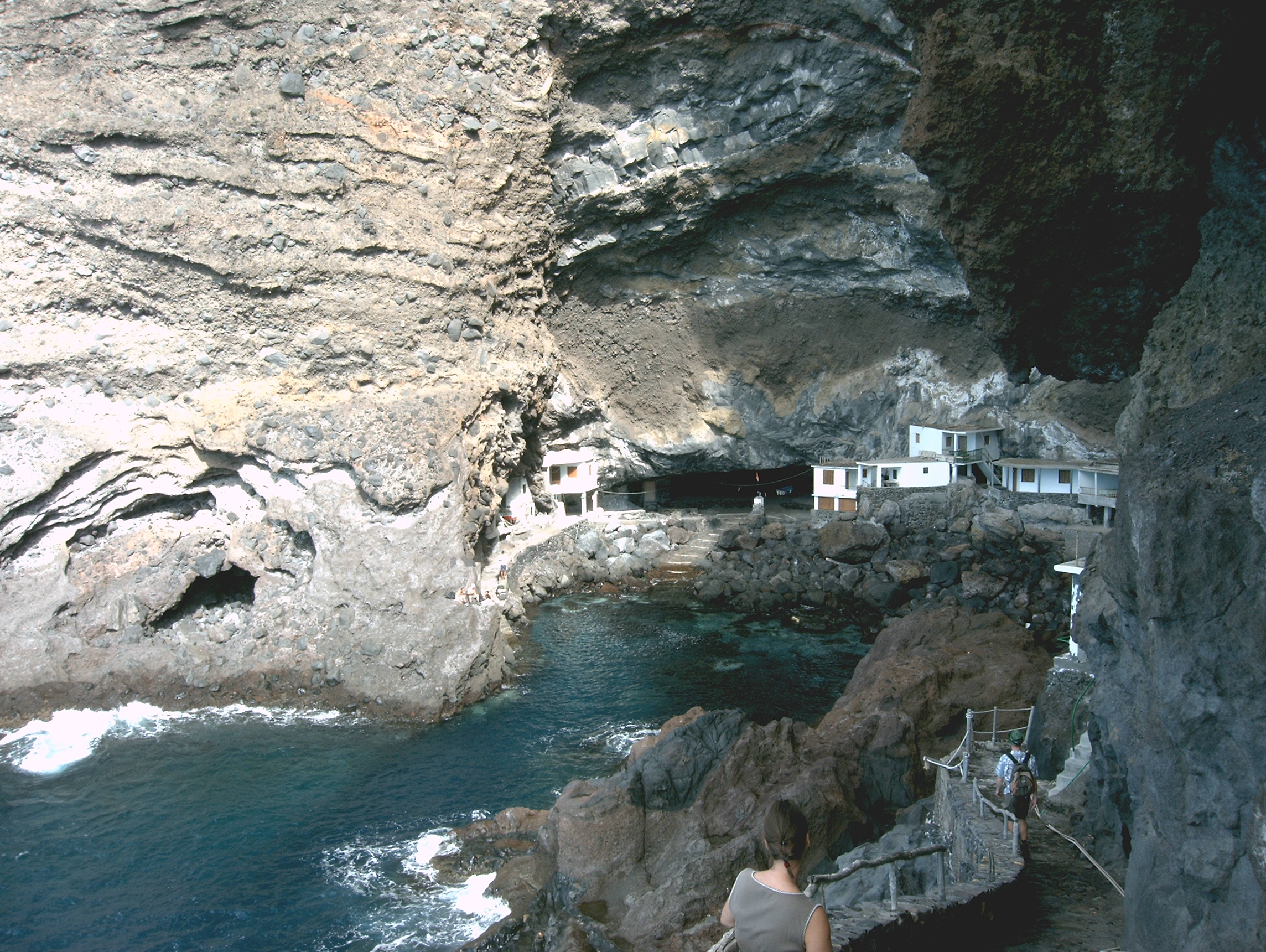 Tijarafe - Prois de Candelaria